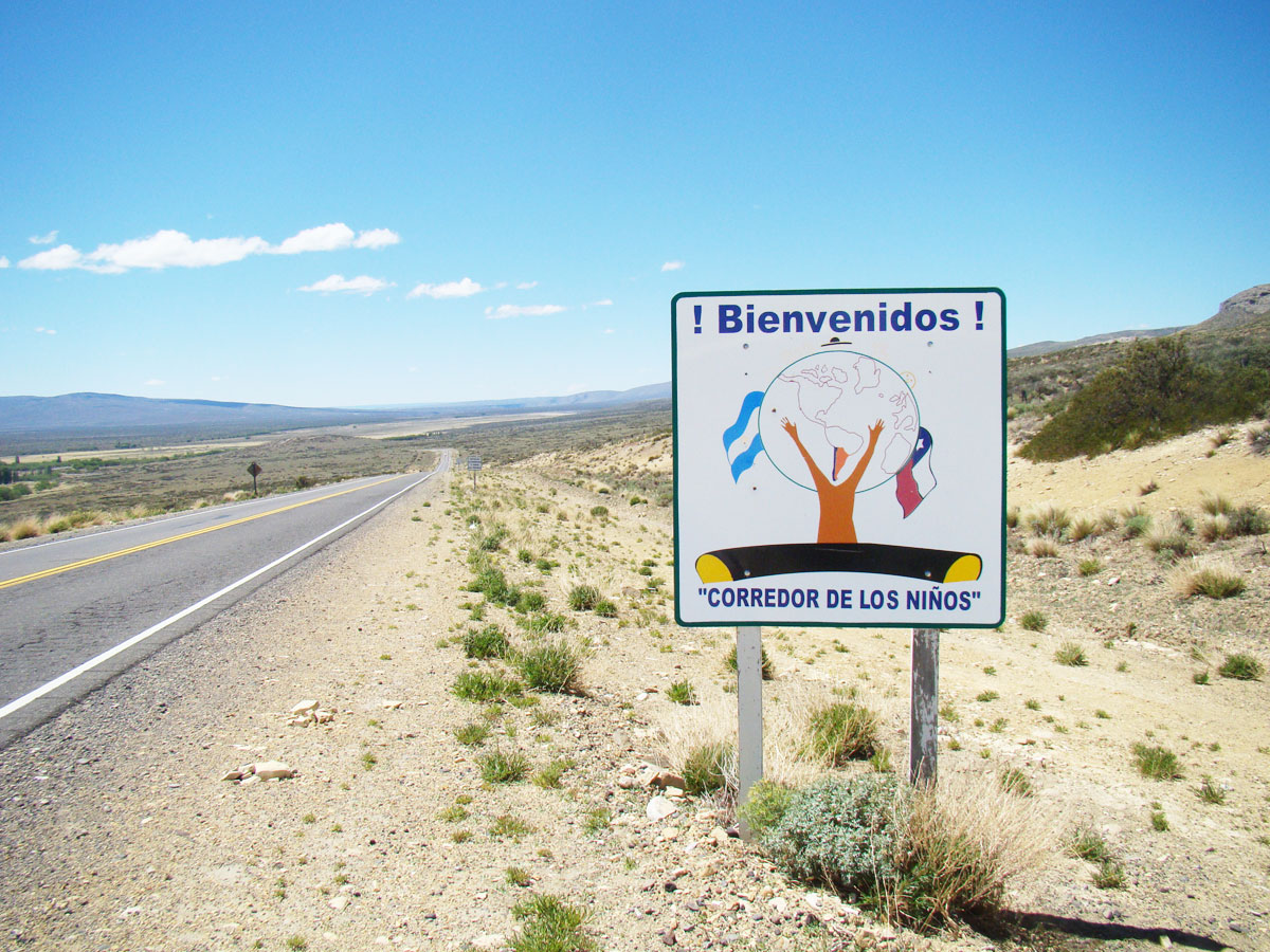 El Corredor de los Niños, located in Pino Hachado Pass between Las Lajas, Argentina, and Liucura, Chile.